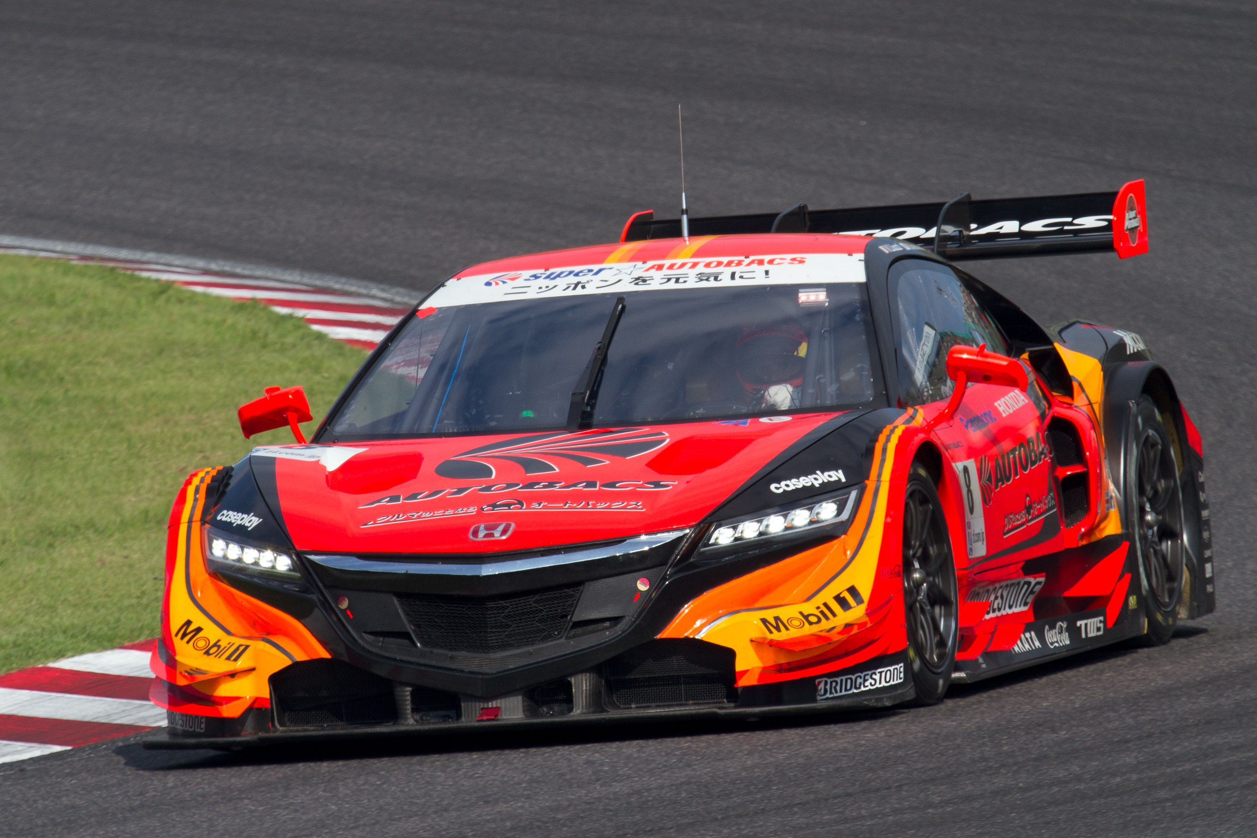 Super GT 2014 Rd.6 Suzuka 1000km: Vitantonio Liuzzi (ARTA)